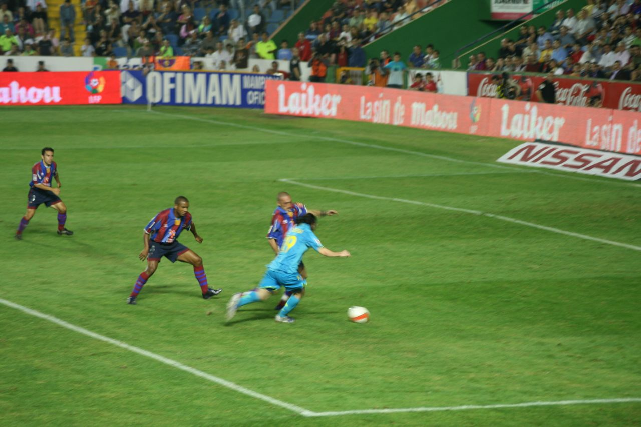 Messi takes it around the defender